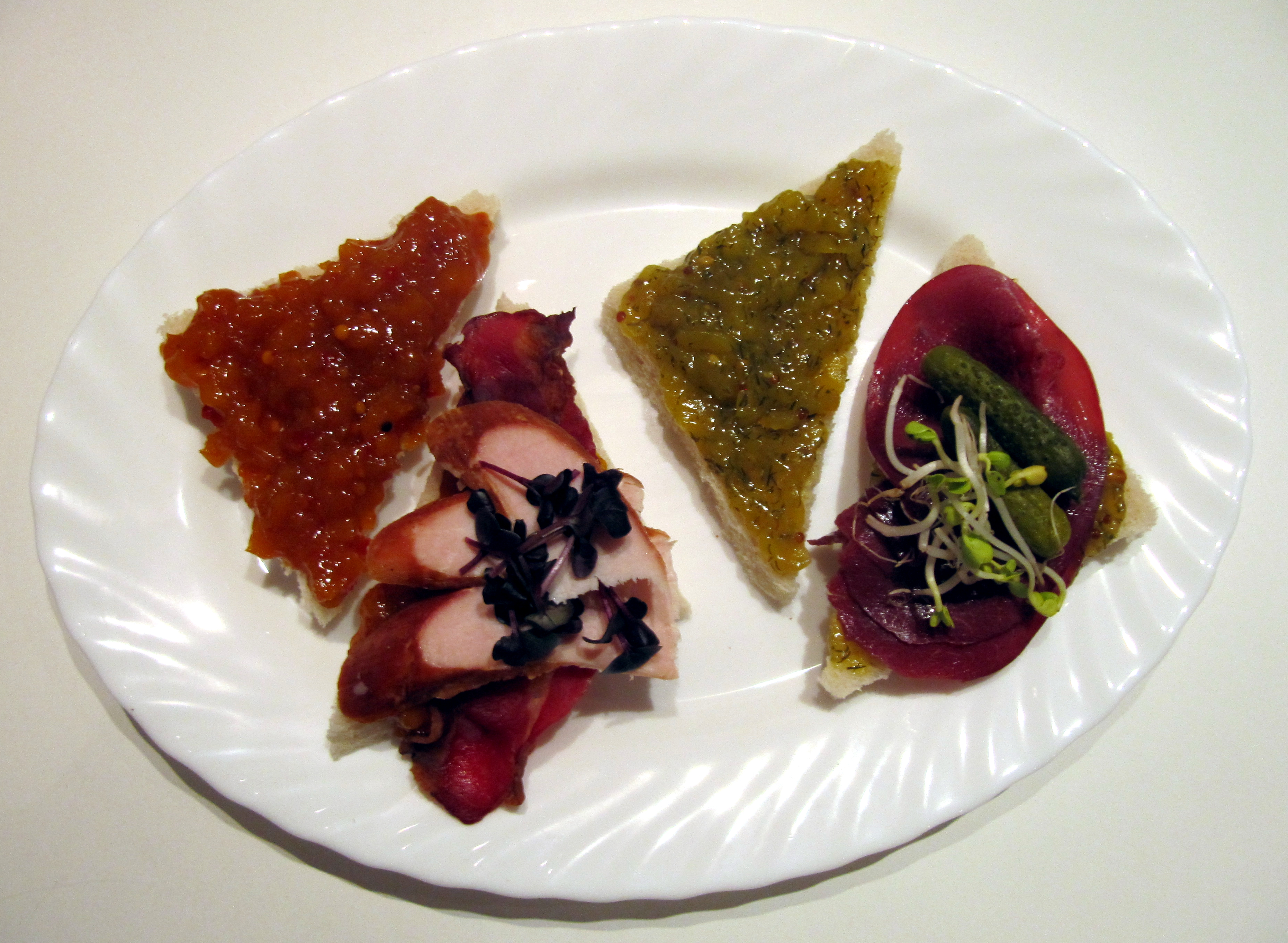 Two sandwiches with diefferent relishes